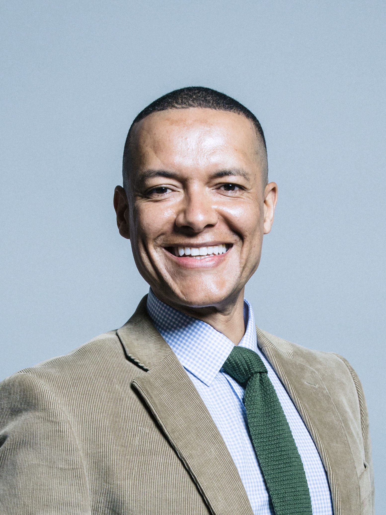 Official portrait of Clive Lewis